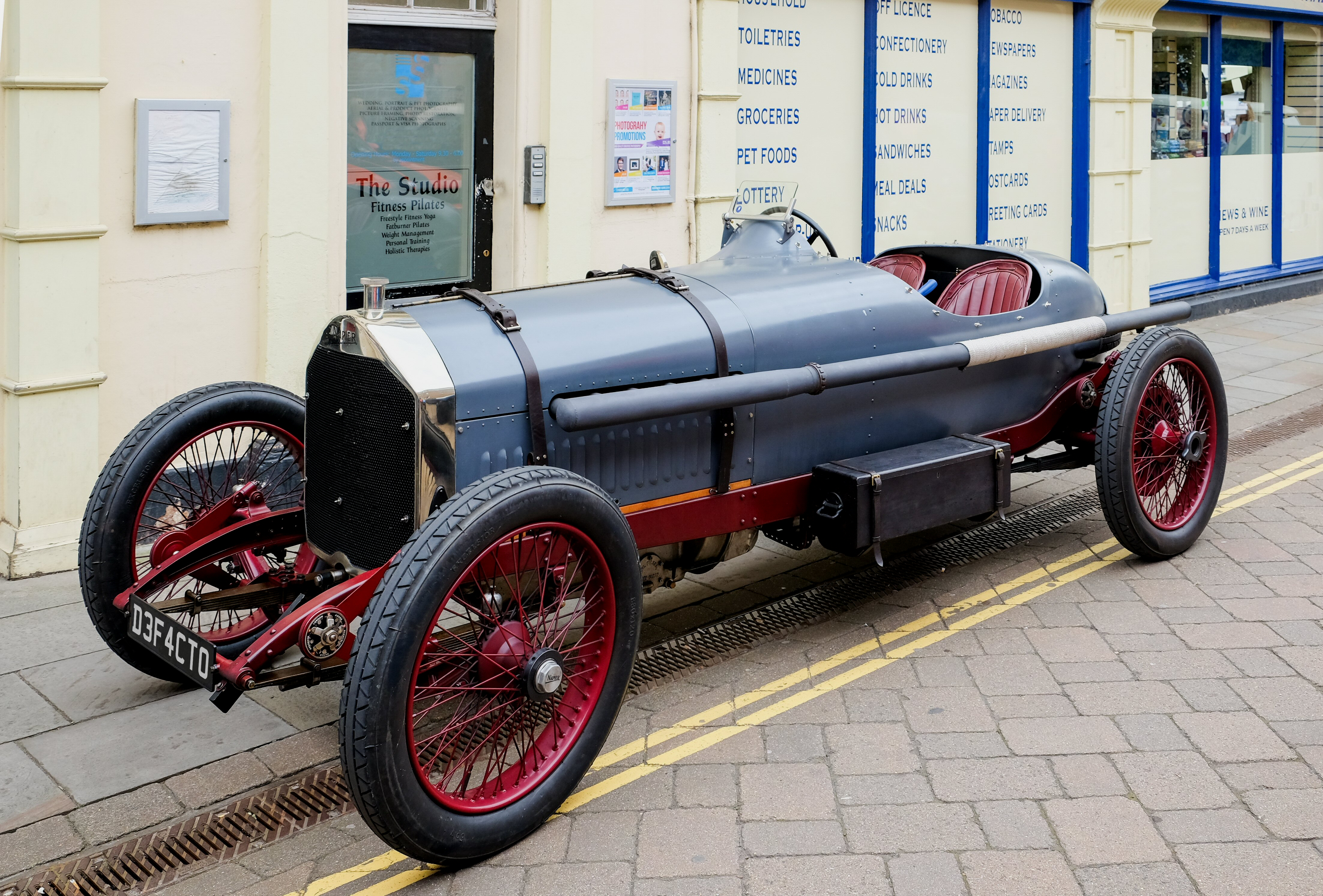 A 1920 Napier Type 75 TT(DVLA) first registered January 1920, manufactured 1920, 6220 cc